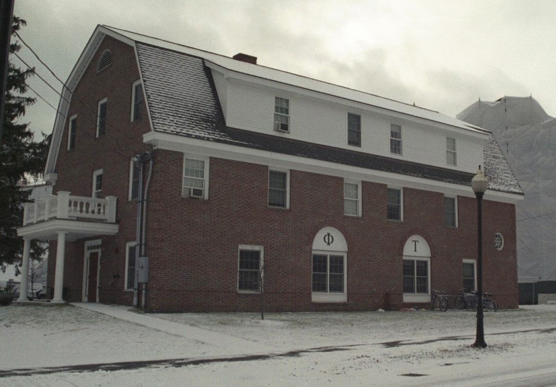 A photo of Phi Tau Coeducational Fraternity, Winter 2005